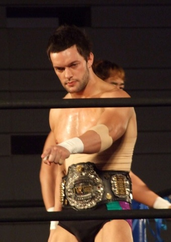 Prince Devitt as the IWGP Junior Heavyweight Champion on November 14, 2010.